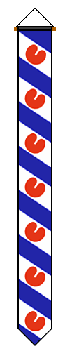 Wimpel van Friesland/Fryslân - Pennant of the Dutch province of Friesland/Fryslân - own work -- Quistnix 08:37, 11 November 2005 (UTC)